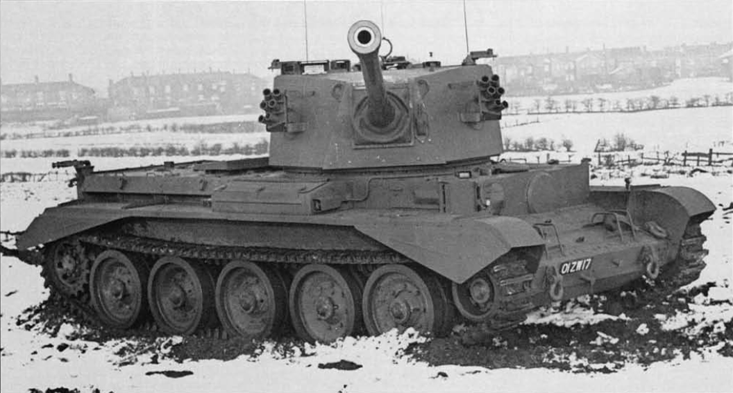 Charioteer 01ZW17 posing for a portrait in the snow, with its gun traversed right. The gun travelling clamp is visible at the back